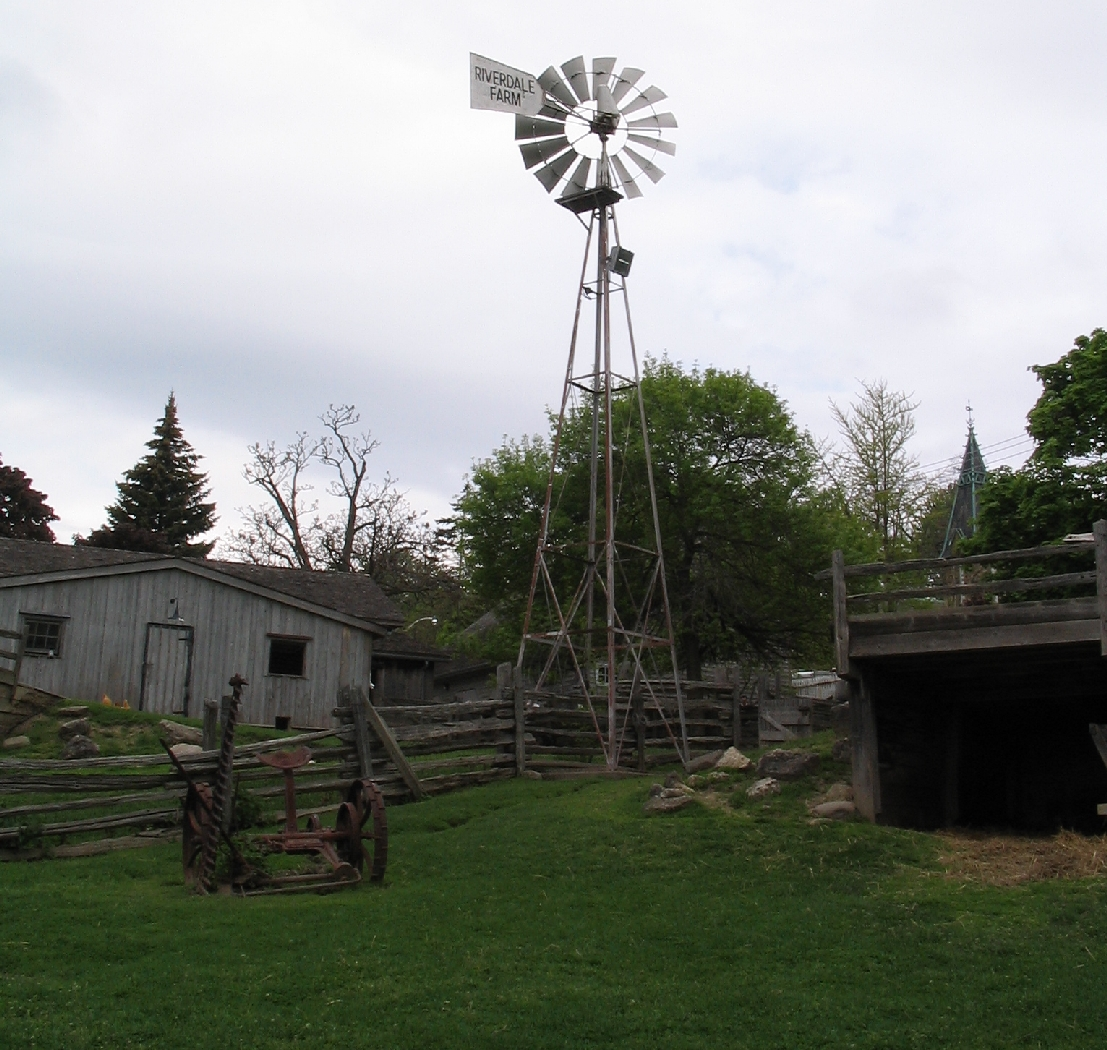 Windmill straddling the fence between the cock and hen area with the duck and swan area on the right. More information: The Friends of Riverdale Farm . (Riverdale Farm, former site of Toronto Zoo, in Cabbagetown neighbourhood of Toronto, Canada)